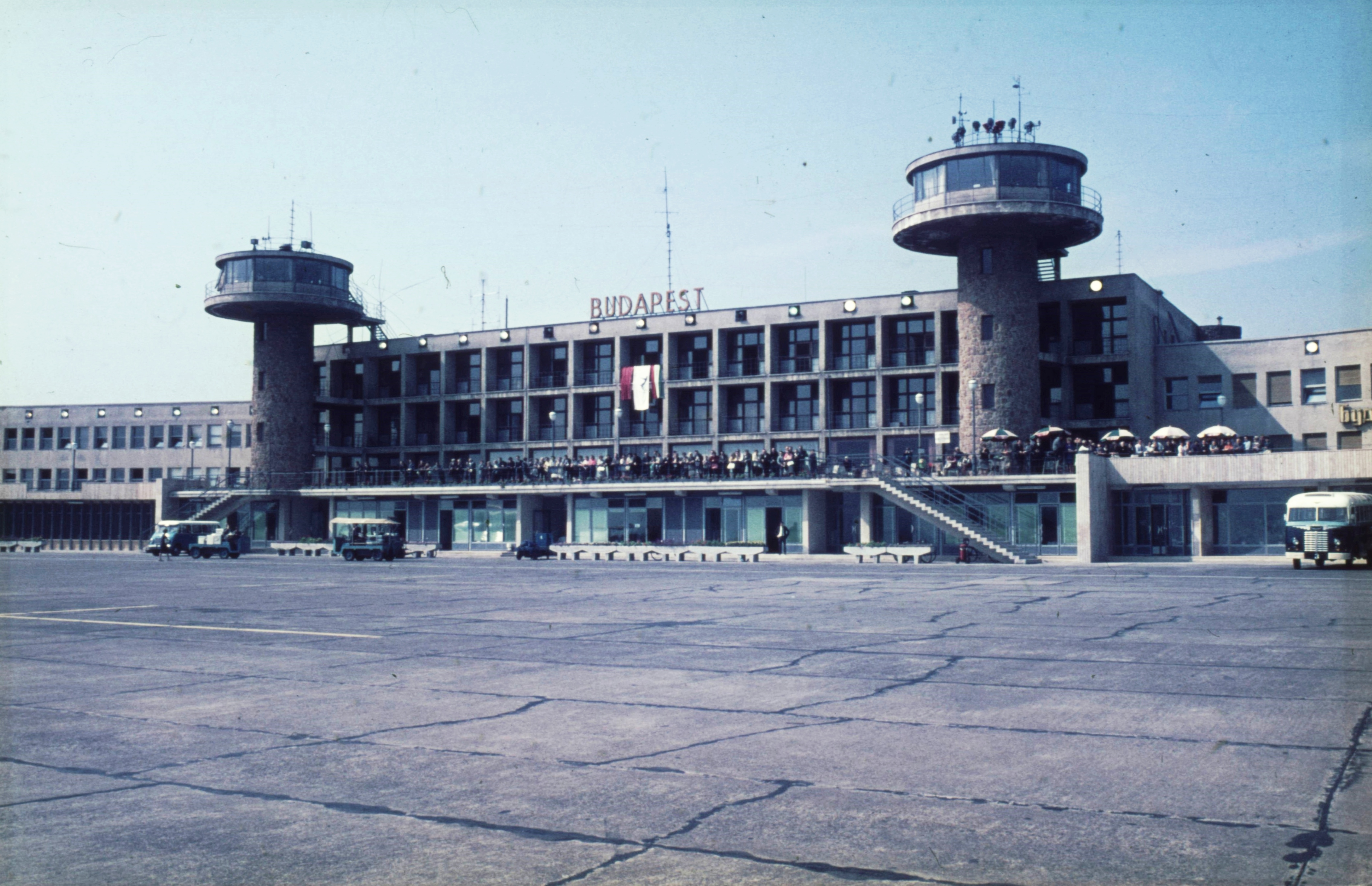 Location: Hungary, Budapest XVIII. Tags: airport, bus, Ikarus-brand, Hungarian brand, Budapest, colorful